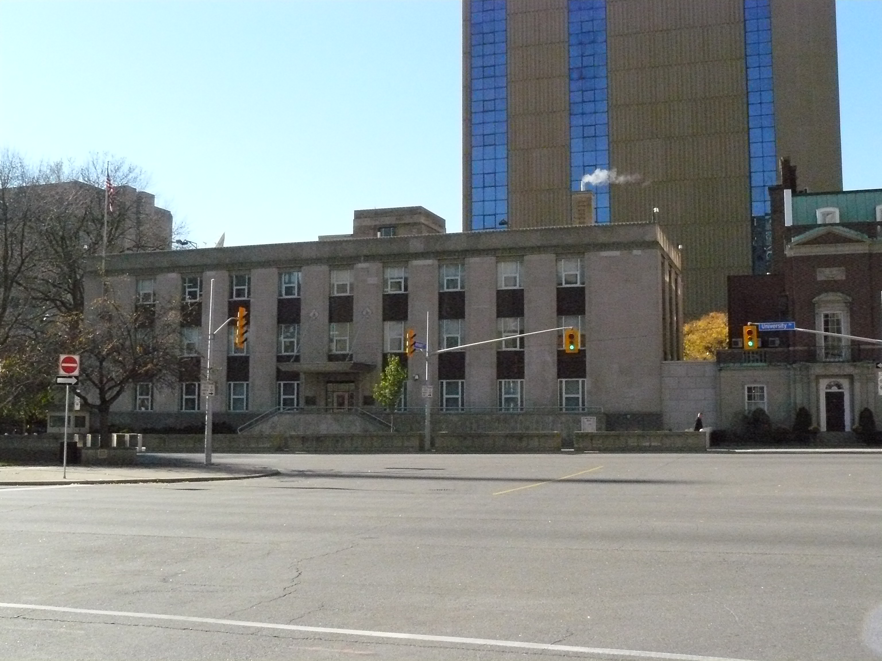 Consulate General of the United States in Toronto.